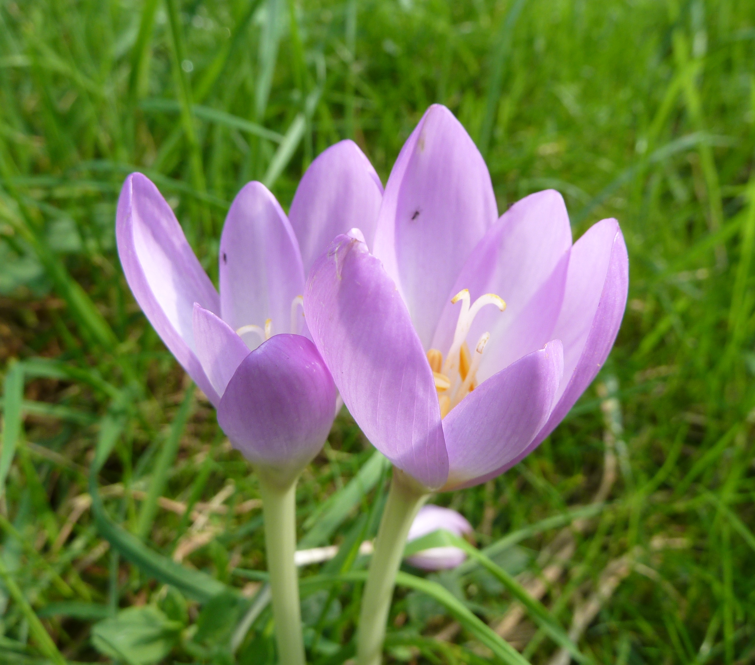 Autumn crocus (Colchicum autumnale) in Nature reserve Terezské údolí, near Olomouc, Czech Republic